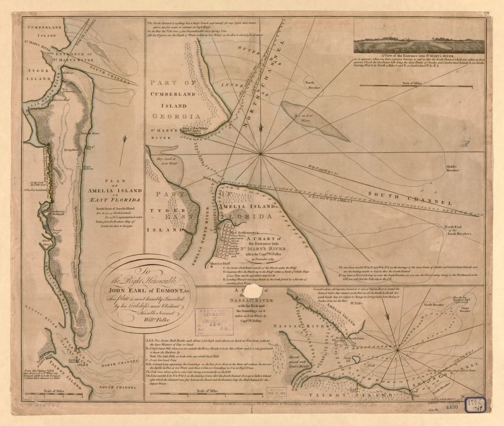 "Plan of Amelia Island in East Florida, north point of Amelia Island lyes in 30:55 north latitude 80:23 w. longitude from London, taken from De Brahm's Map of South Caroline & Georgia. A chart of the entrance into St. Mary's River..." From W. Faden's The North American atlas. 1777.